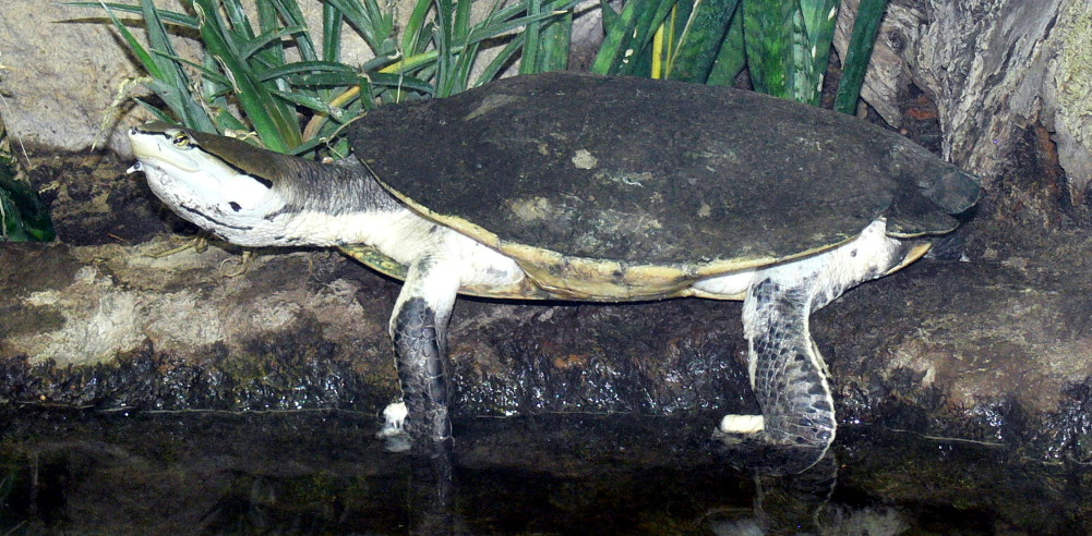 Phrynops hilarii